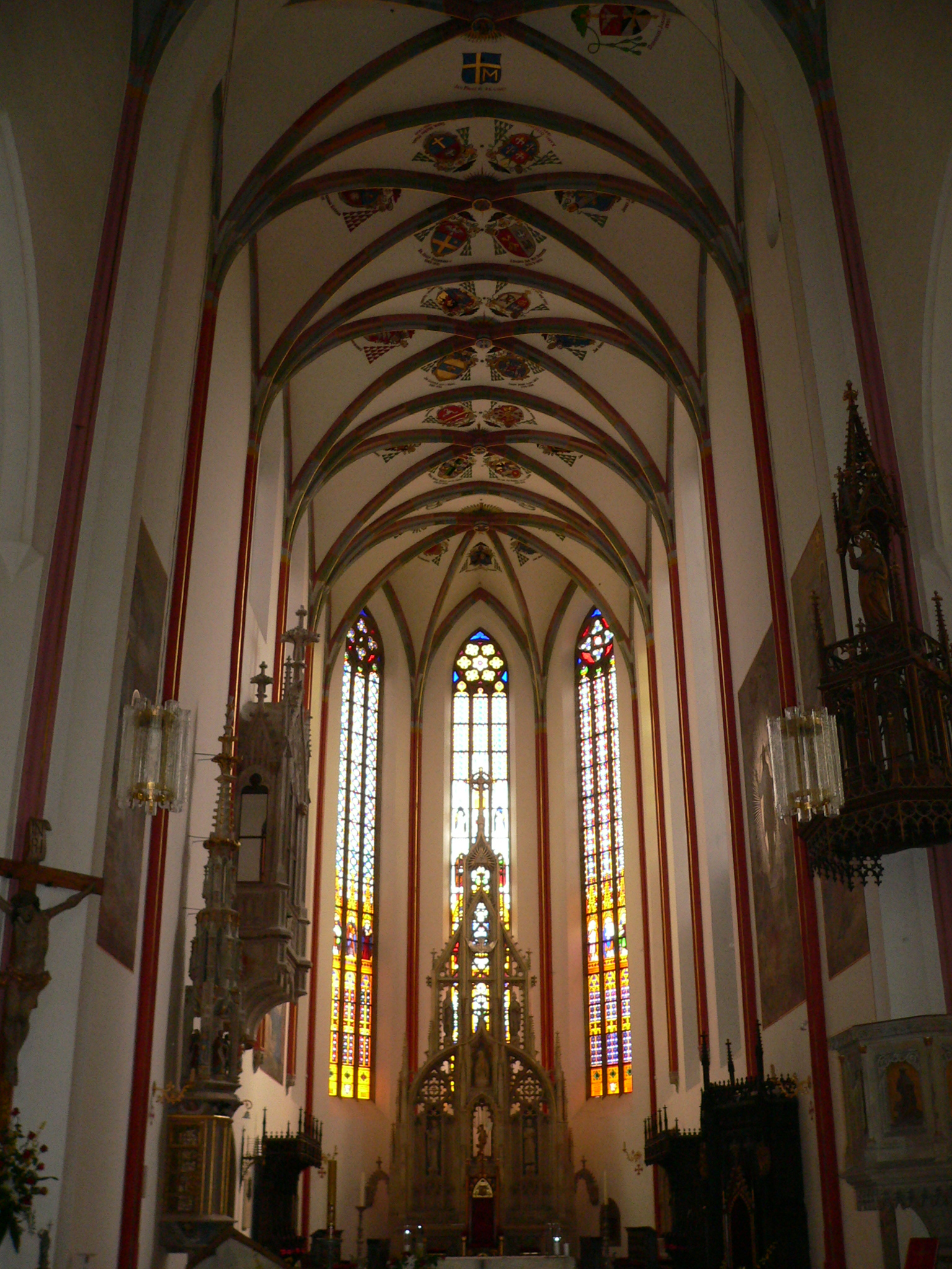 presbytery of Cathedral of the Holly Spirit Hradec Králové